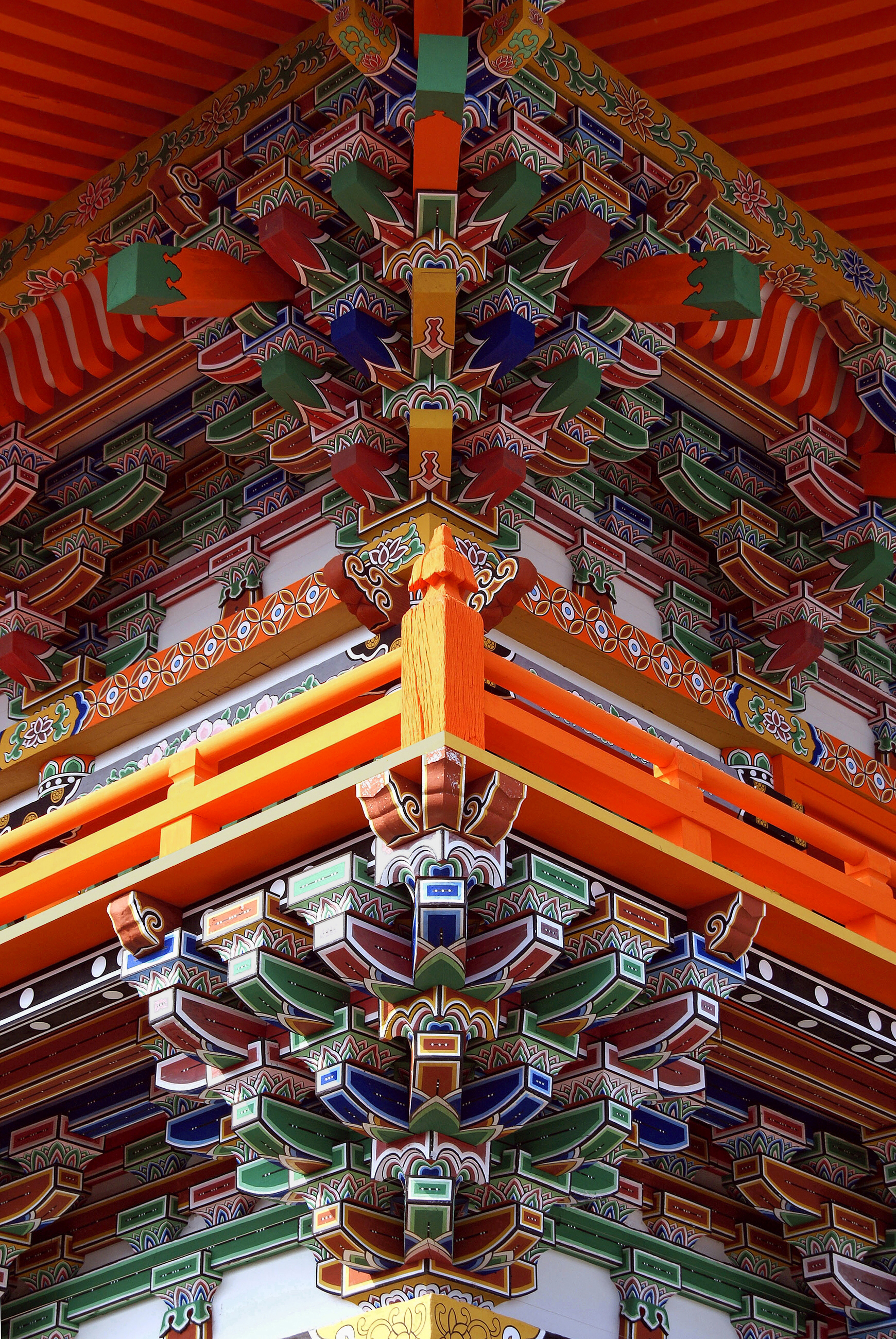 Pillars of Sagami Temple at Hyōgo Prefecture in Japan.